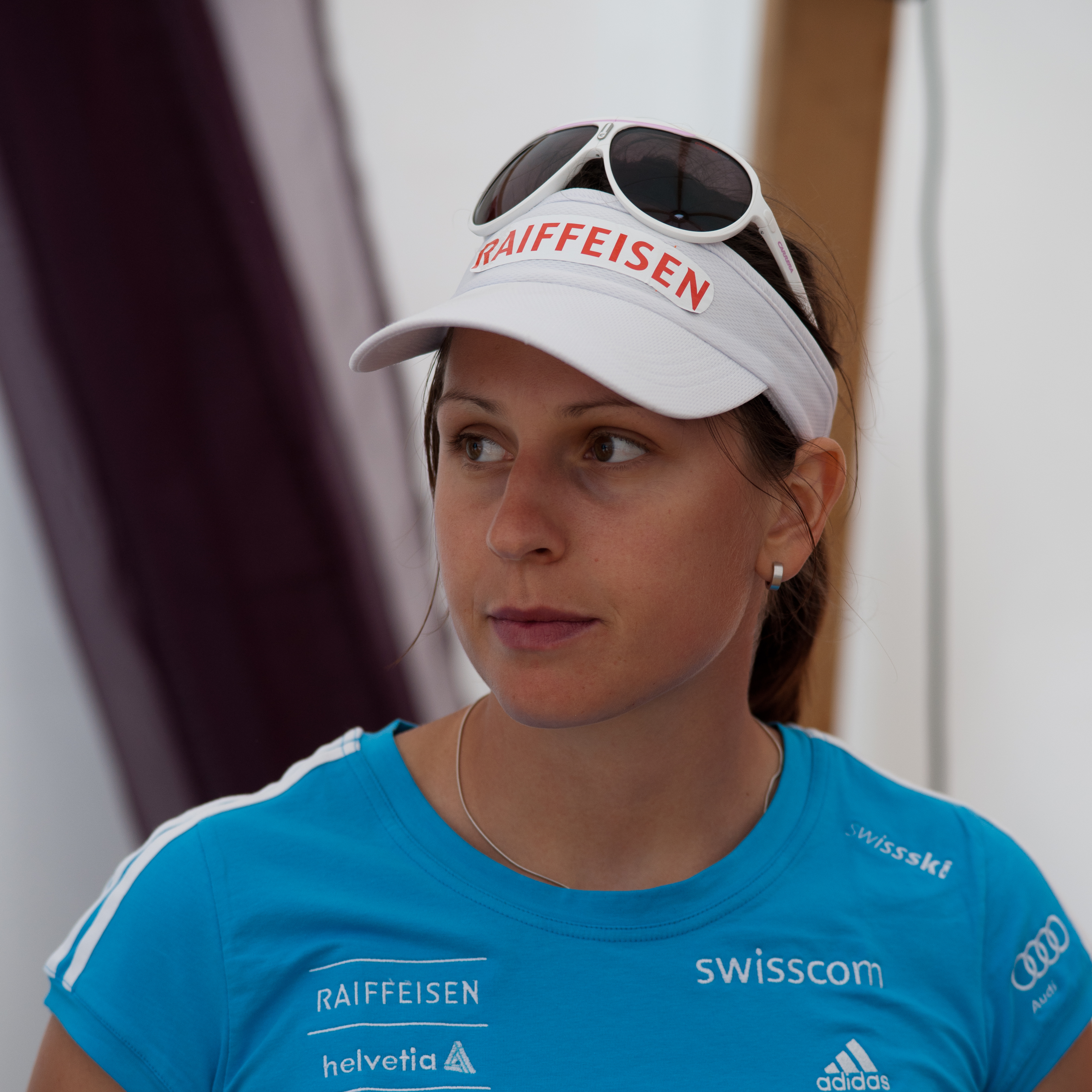 Unterseen, Switzerland